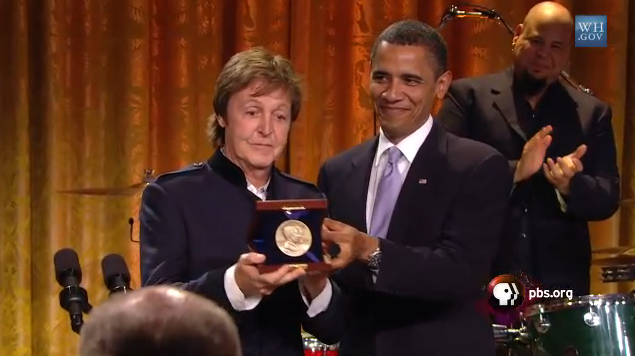 Still frame from White House video of Paul McCartney receiving the Gershwin Award from Barack Obama